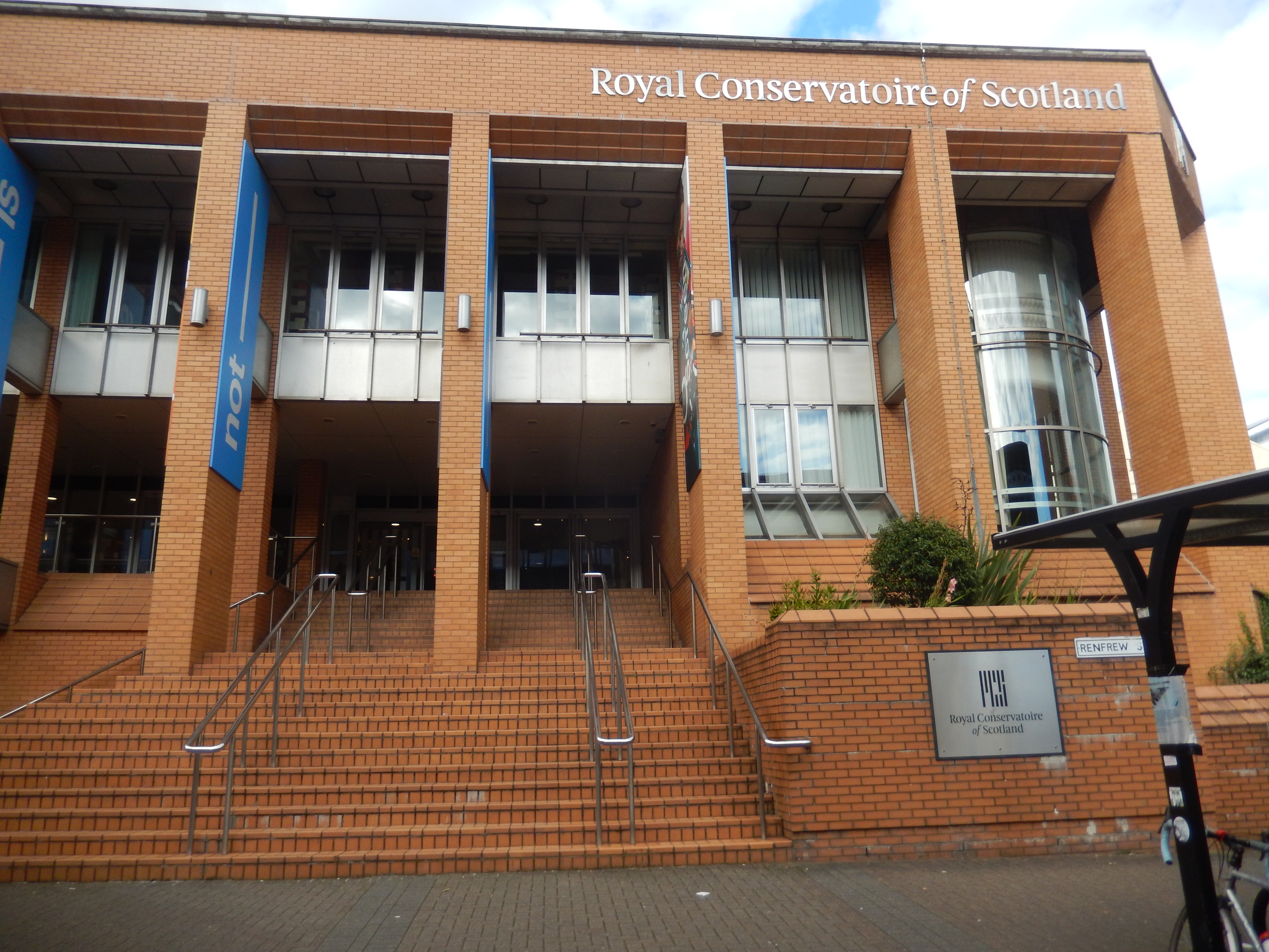 Royal Conservatoire of Scotland (formerly Royal Scottish Academy of Music and Drama), Renfrew Street, Glasgow.